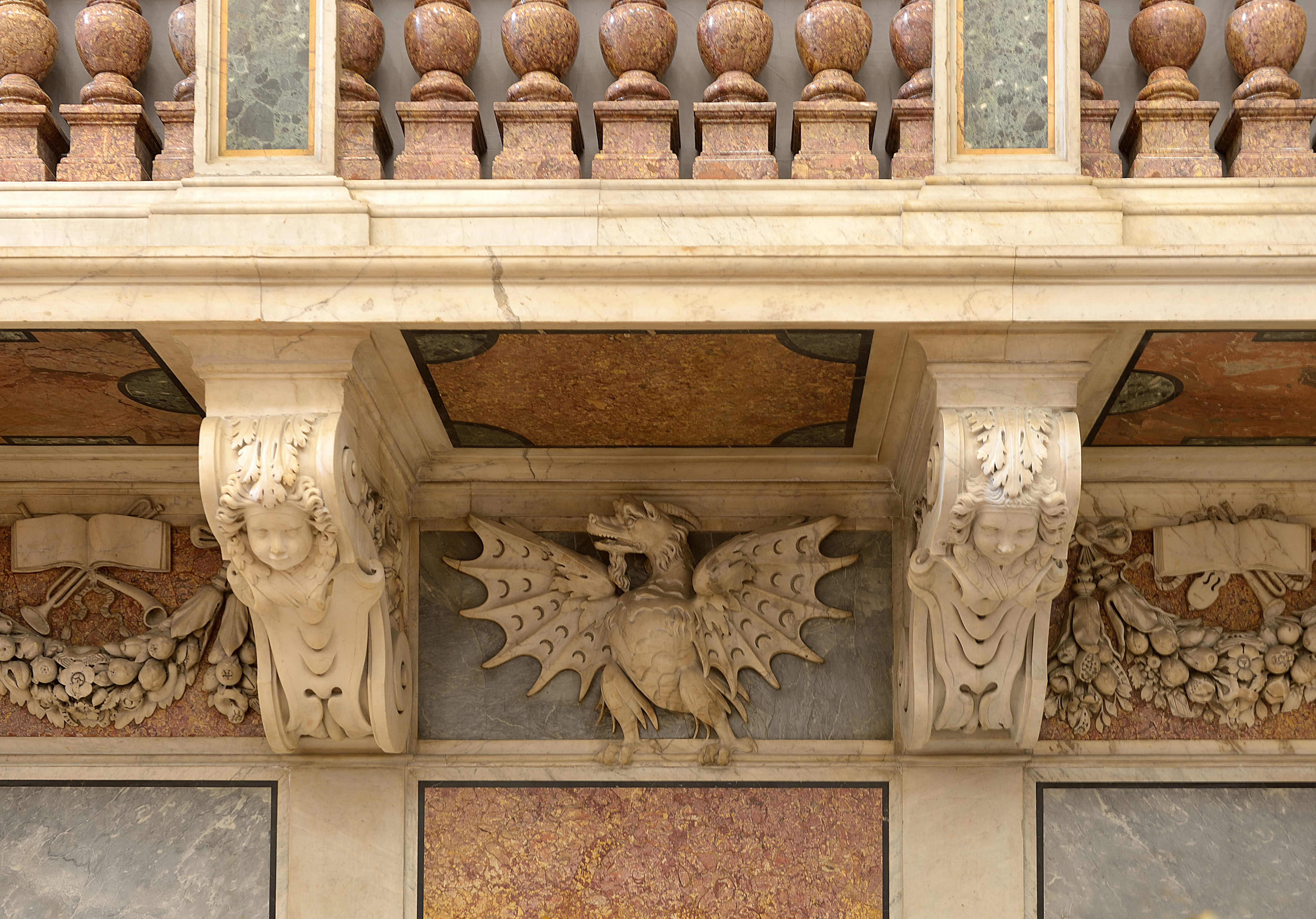 Detail of the base of the balcony of the Cappella Paolina chapel in the Quirinal Palace in Rome.